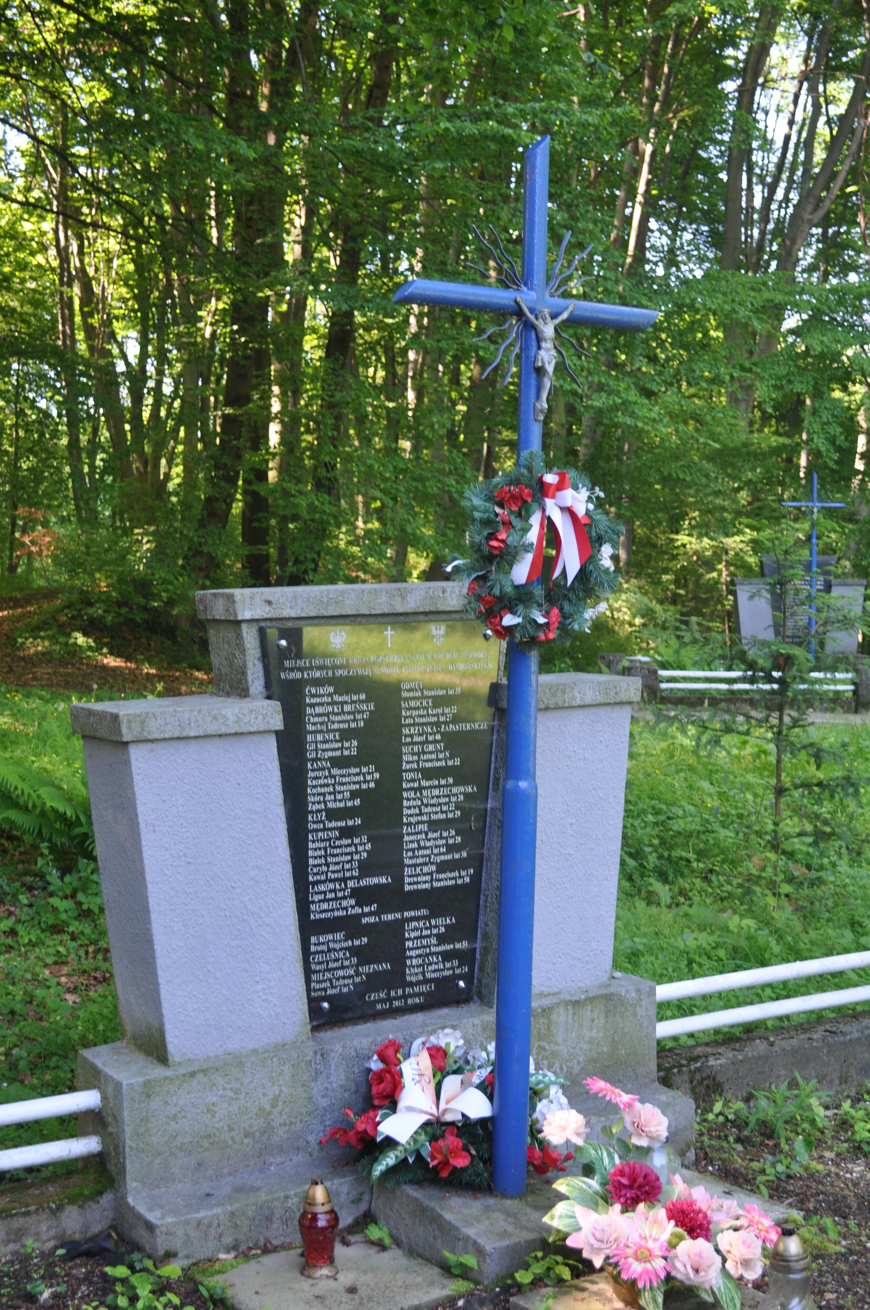 Buczyna Forest at Zbylitowska Gora. Poland. World War II cementery of Jews and Poles, German victims.